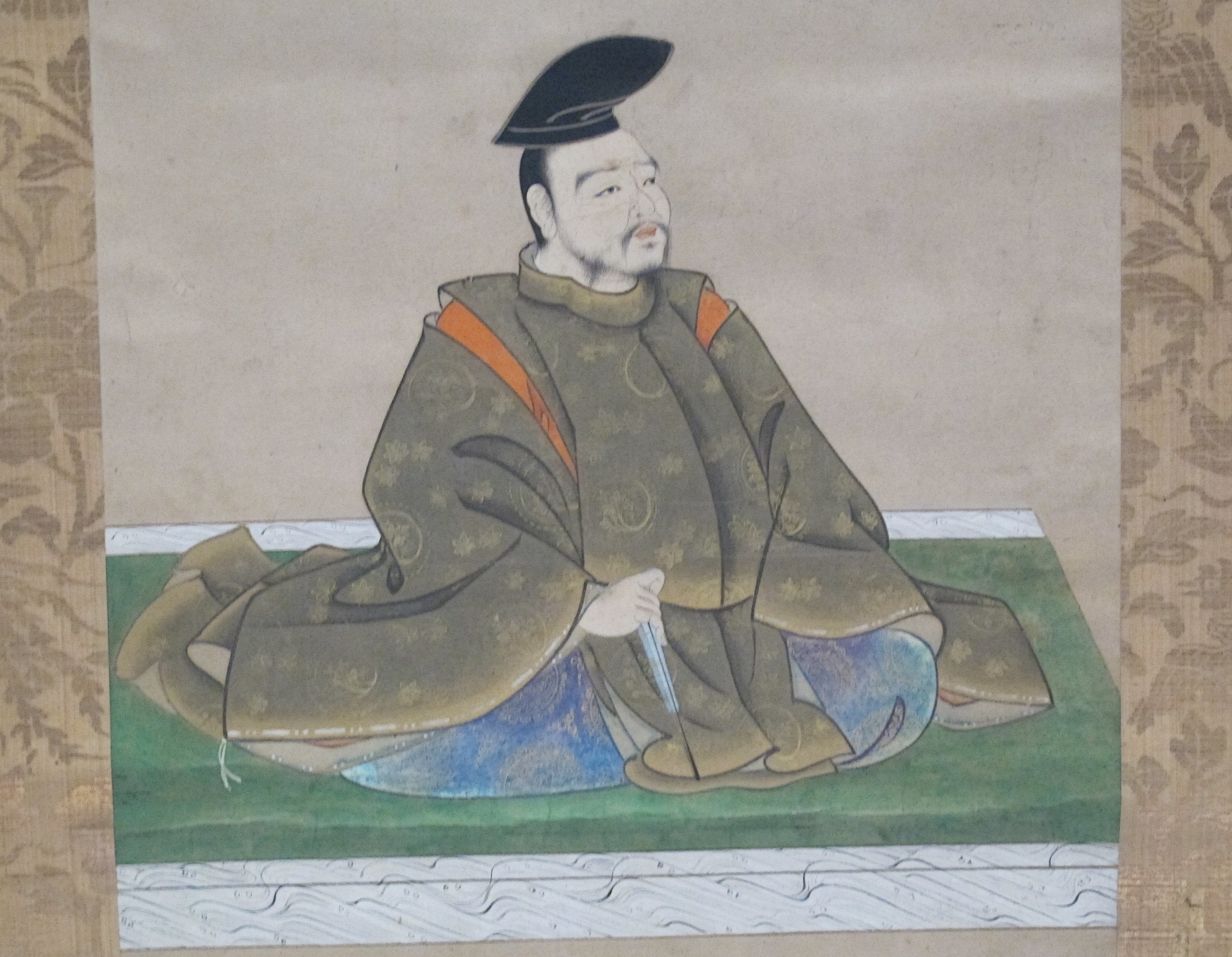 Colored painting of Yamabe no Akahito by Emperor Go-Yōzei (including his own work). Important arts (recognized by the state)